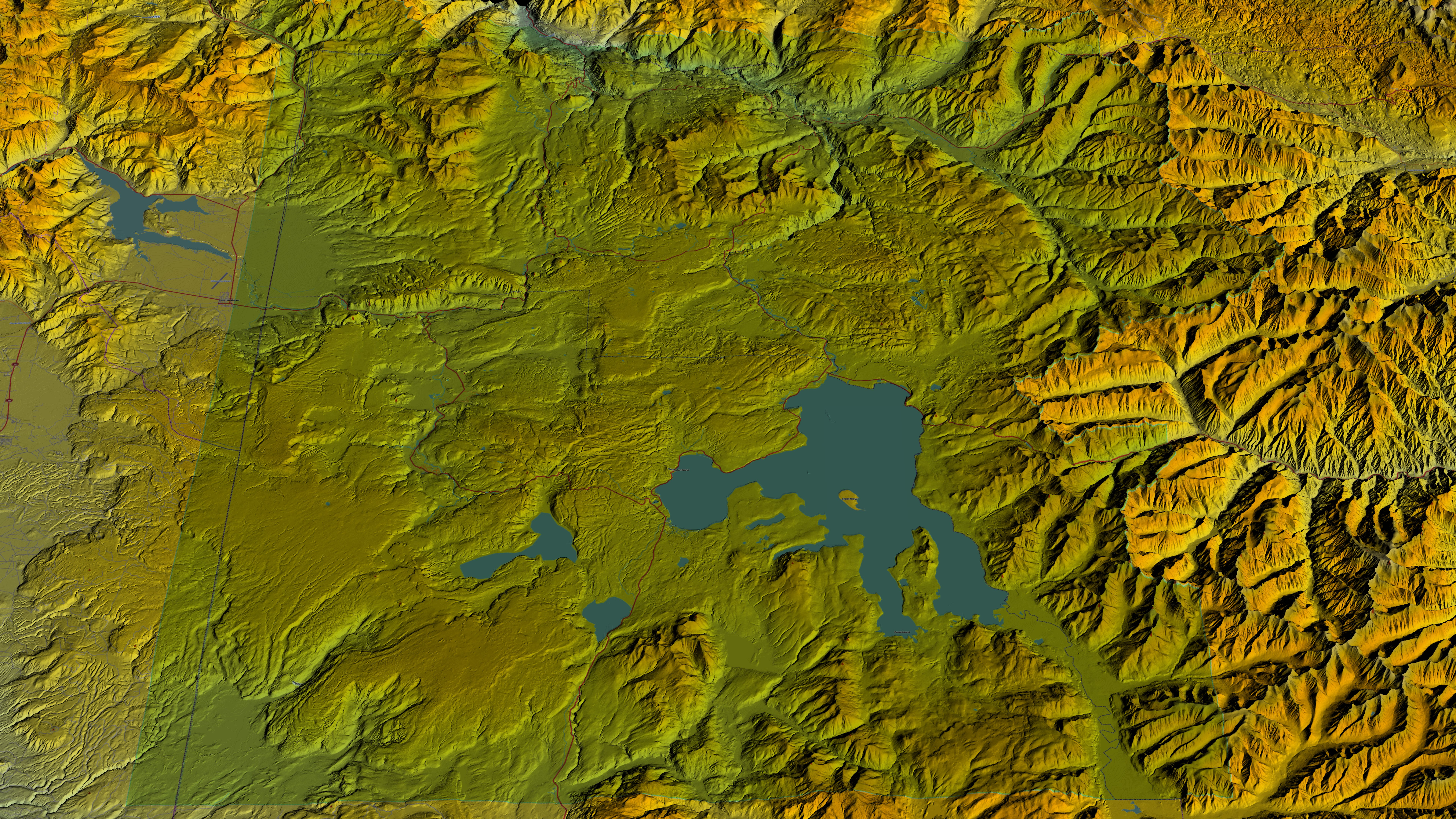 Yellowstone National Park, computer image generated using TruFlite Yellowstone National Park (TruFlite-Computergrafik)